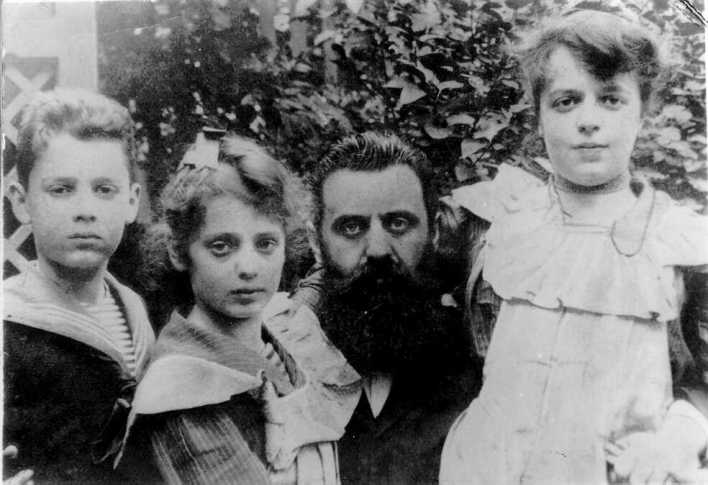 Herzl with his kids